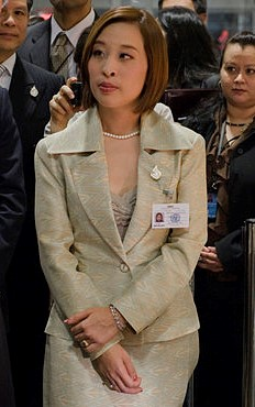 Bajrakitiyabha